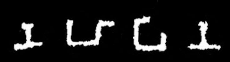 "Nahapana" in Brahmi script at Manmodi caves